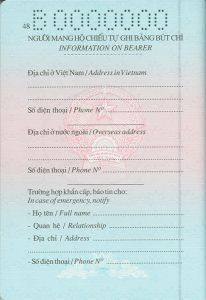 The emergencies Page of Vietnamese Passport.